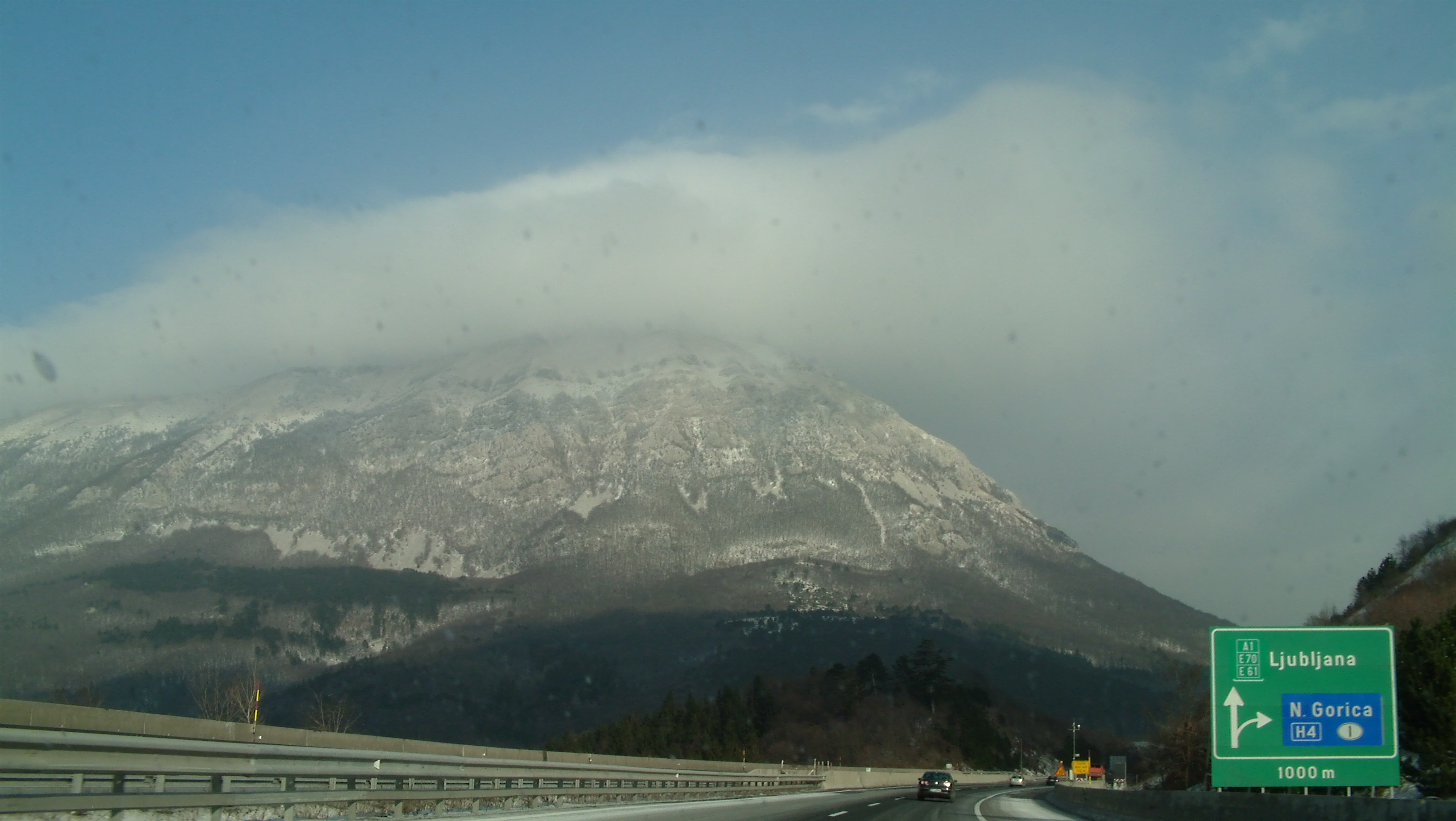 Nanos from highway in winter.